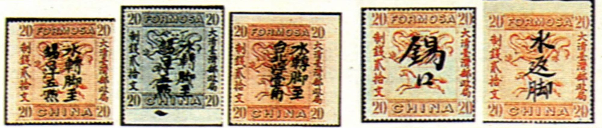 Railway Ticket of Taiwan (Formosa) in the year about 1900, for the first railway of Taiwan